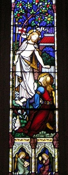 English stained glass